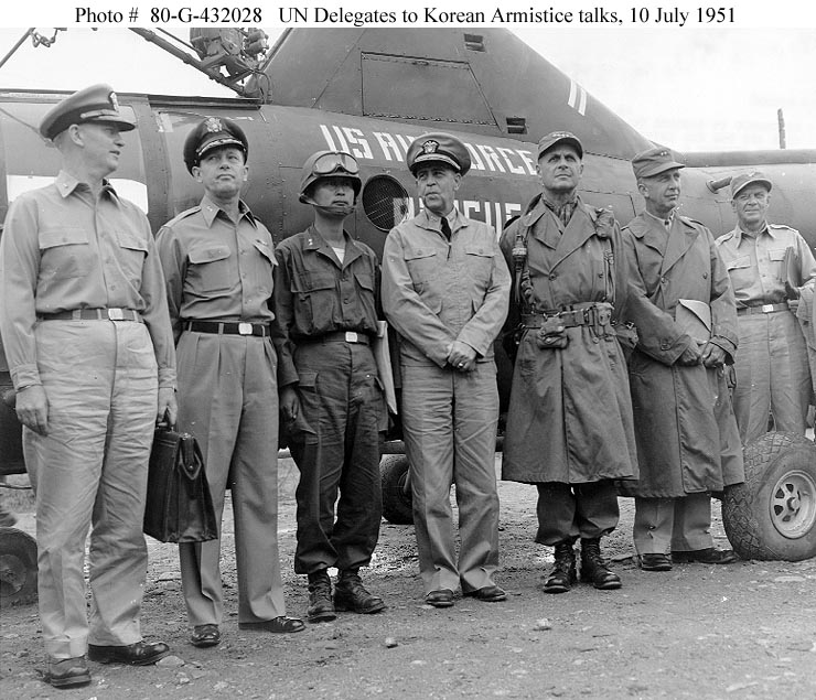 Photo #: 80-G-432028 Korean War Armistice Negotiations United Nations' delegates stand by a U.S. Air Force H-5 helicopter with General Matthew B. Ridgway, U.S. Army, Commander in Chief United Nations Command, prior to take off for the initial Armistice talks meeting, 10 July 1951. They are (from left to right): Rear Admiral Arleigh A. Burke, USN, Major General Laurence C. Cragie, U.S. Air Force, Major General Paik Sun-yup, Republic of Korea Army, Vice Admiral C. Turner Joy, USN, Chief Delegate, General Ridgway, and Major General Henry I. Hodes, U.S. Army.